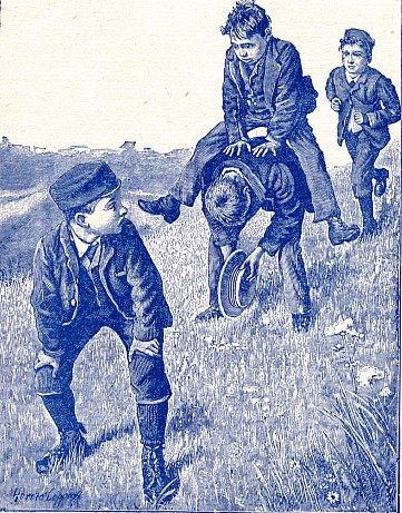 Game of leapfrog from Frolic & Fun 1897